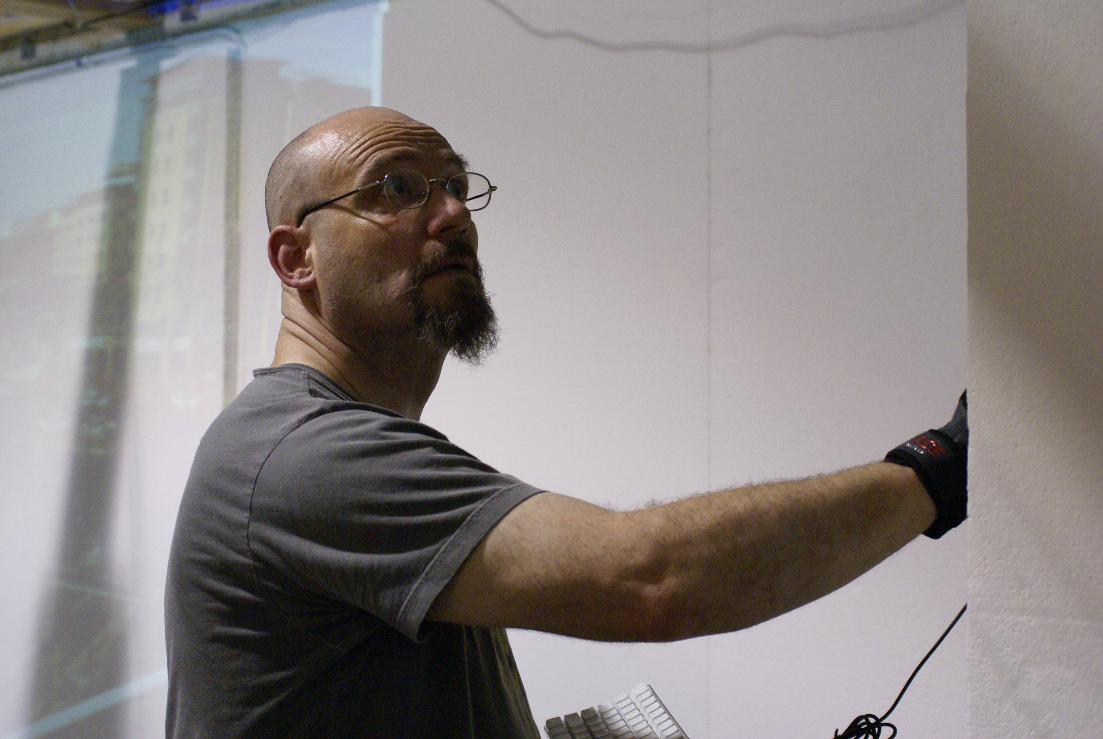 Perry hard at work